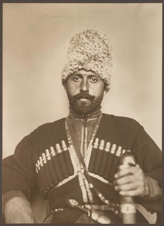 Digital ID: 1206549. Sherman, Augustus F. (Augustus Francis) -- Photographer Source: William Williams papers / Photographs of immigrants (more info) Repository: The New York Public Library. Manuscripts and Archives Division. See more information about this image and others at NYPL Digital Gallery. Persistent URL: Rights Info: No known copyright restrictions; may be subject to third party rights (for more information, click here)